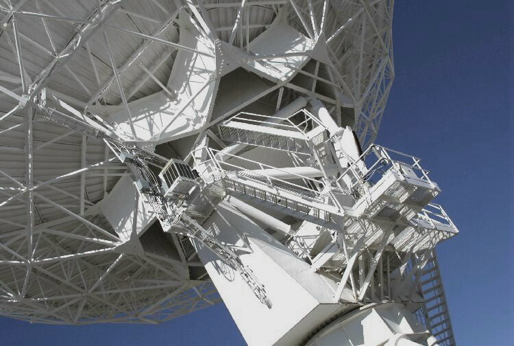 Very Large Array dish detail